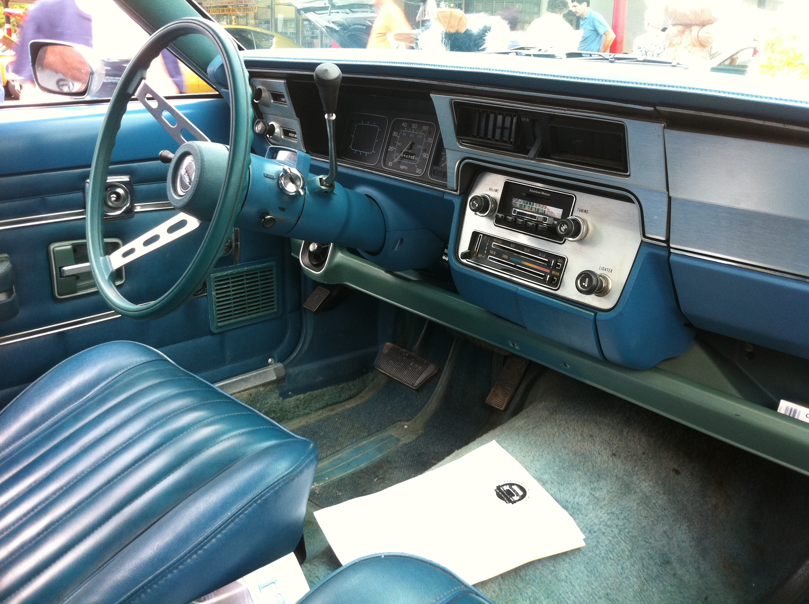 Instrument panel of a 1978 AMC Gremlin with "X" trim, finished in blue.